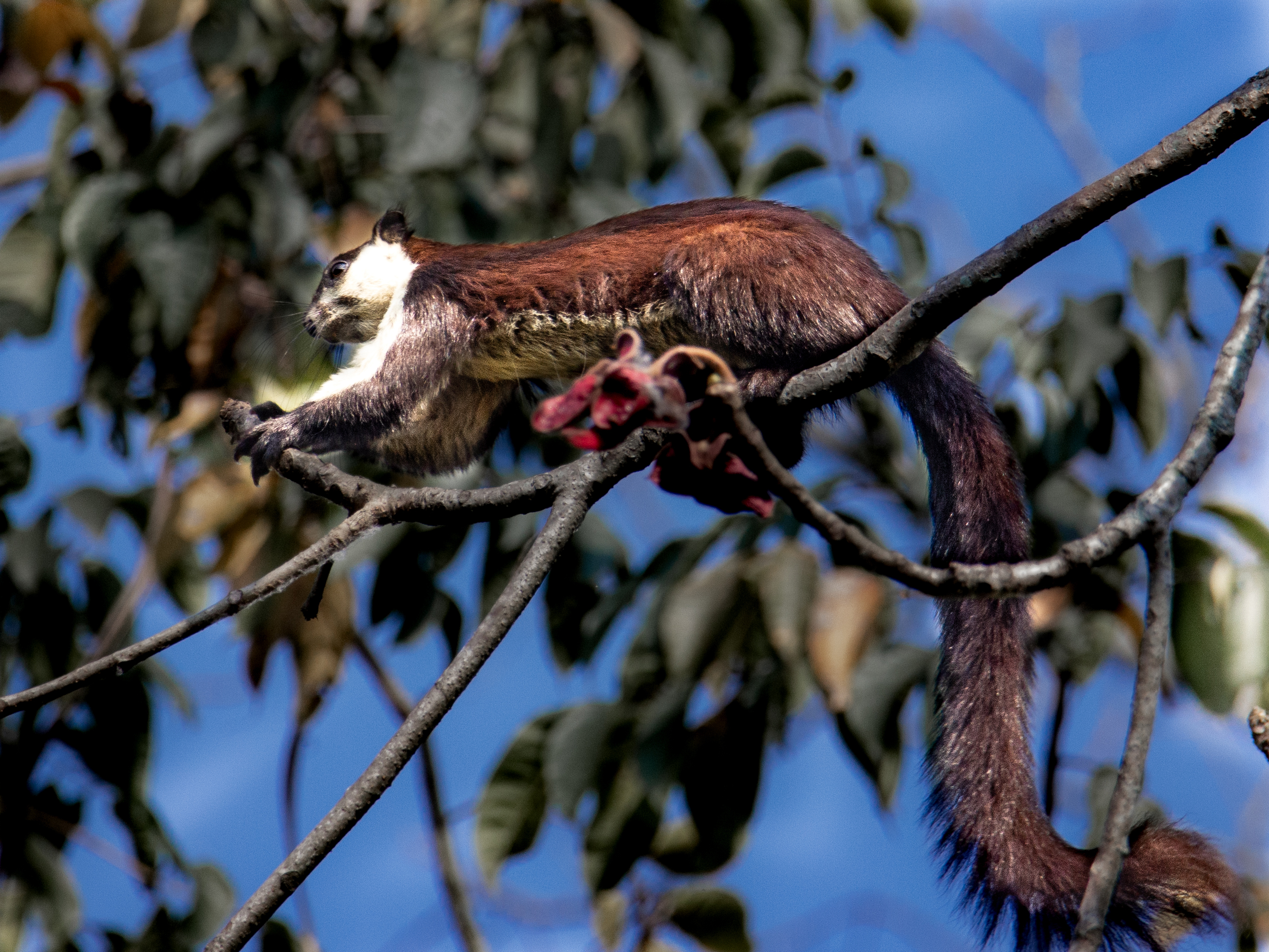 A specimen from Nameri National Park, India